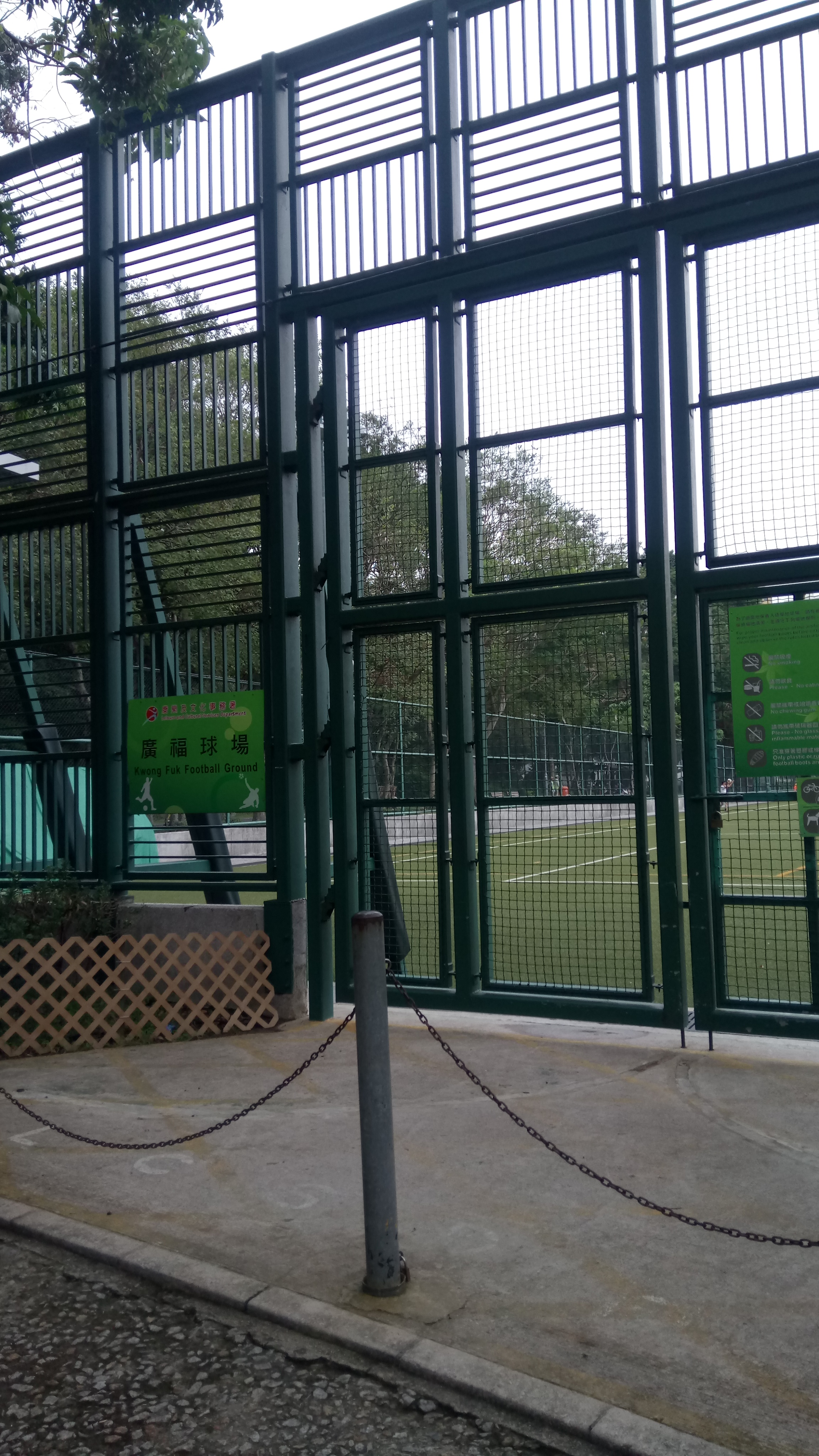 Kwong Fuk Football Ground